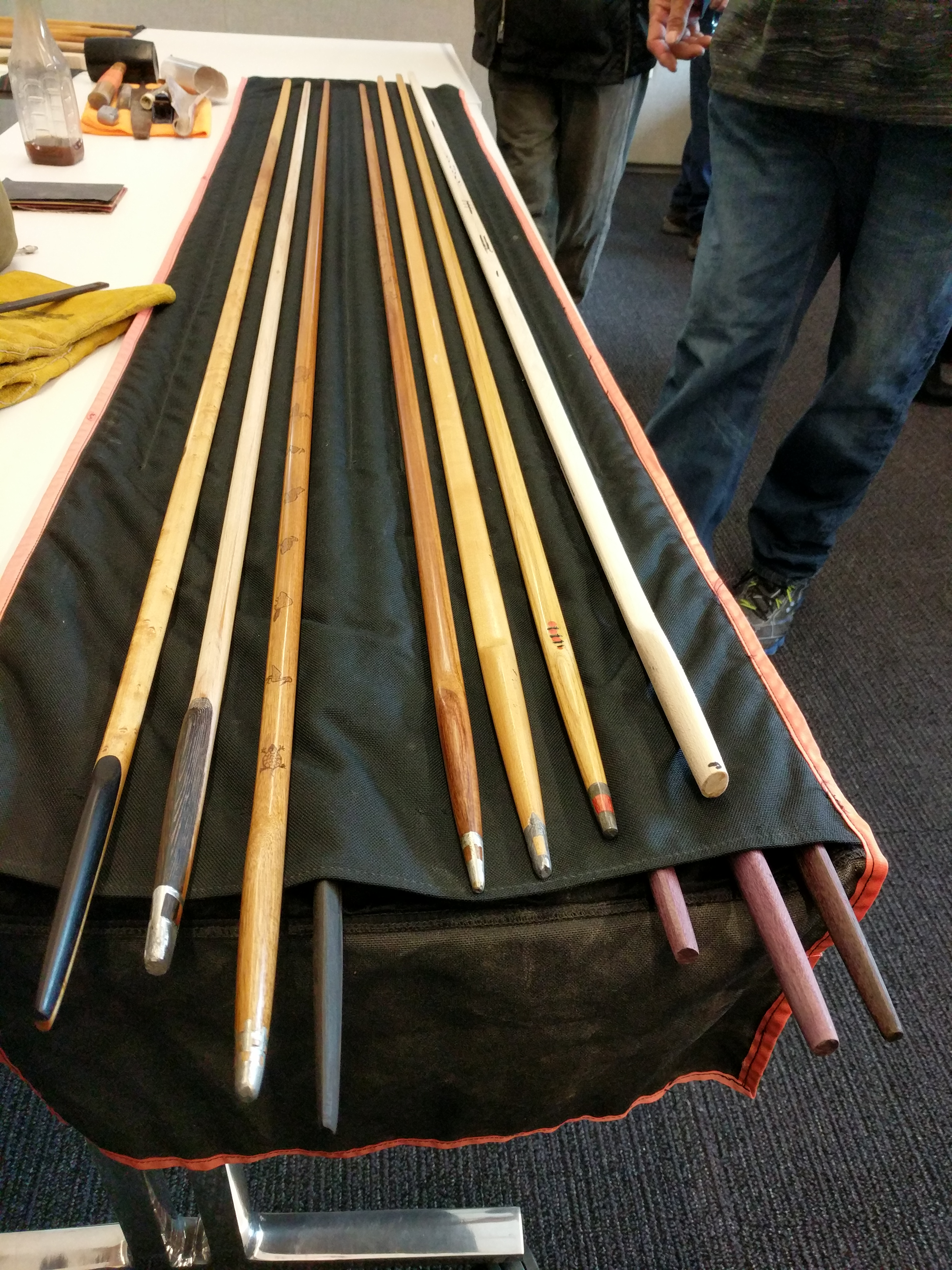 Full-size Snow snakes at the 2019 Ganondagan State Historic Site Native American winter games